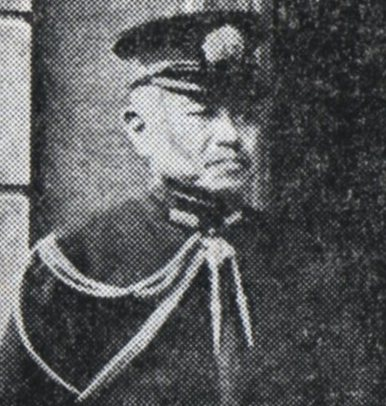 Kanji Katou was an Imperial Japanese Navy Full Admiral